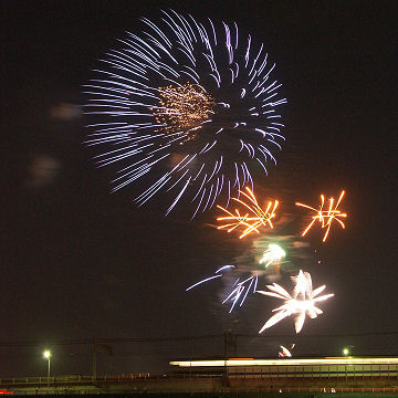 川崎市制記念多摩川花火大会と東急二子橋梁 撮影日：2005年 8月20日 撮影地：多摩川河川敷（神奈川県川崎市高津区二子地先） 撮影者：cory 出典： Kawasaki city Tamagawa fireworks festival. Date: 2005-08-20 (Aug 20, 2005) Place: Tama River, Futago Takatsu Kawasaki Kanagawa, Japan. Author: ISAKA Yoji (cory)